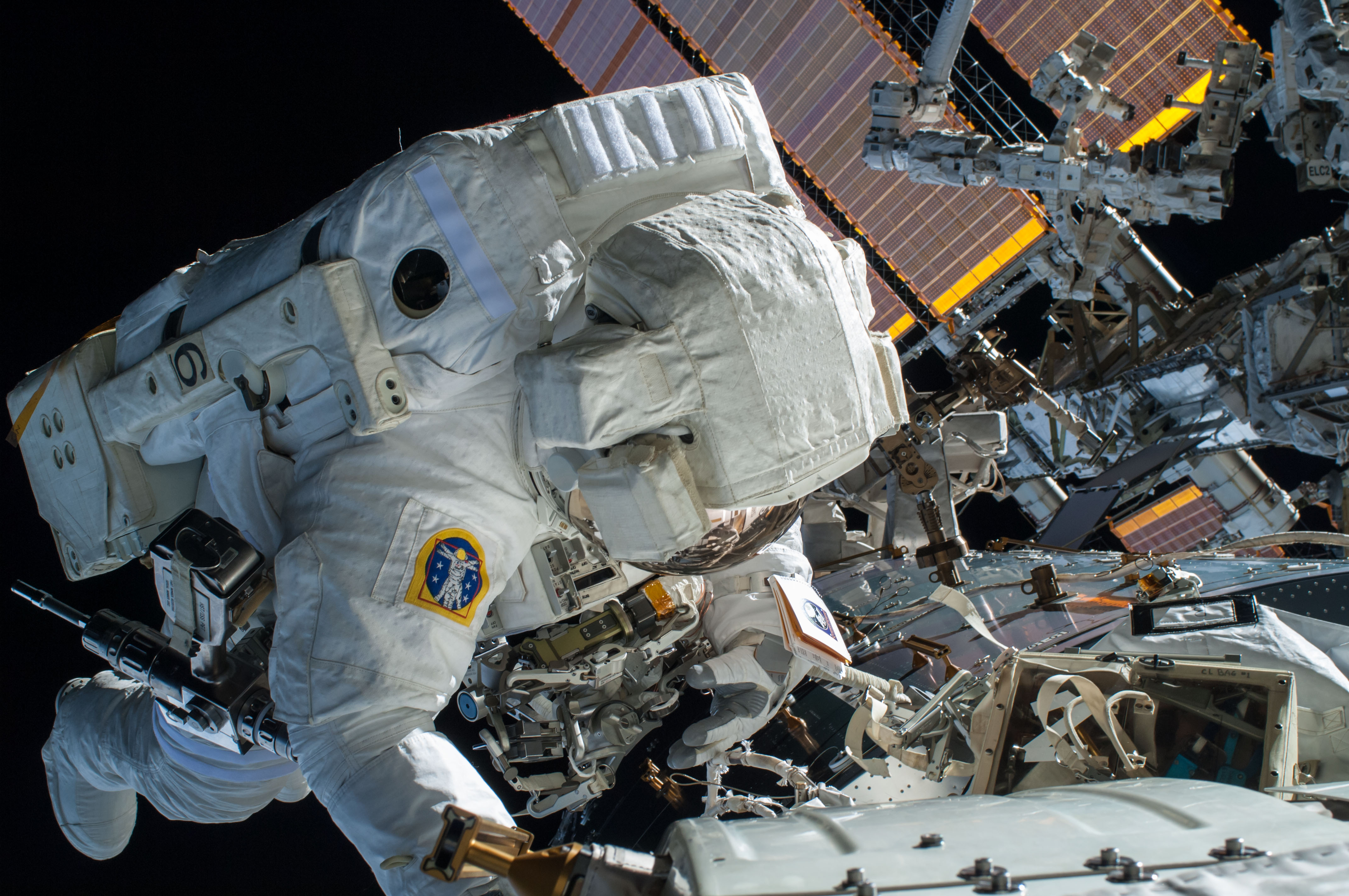 NASA astronaut Terry Virts Flight Engineer of Expedition 42 is seen working to complete a cable routing task while near the forward facing port of the Harmony module on the International Space Station.